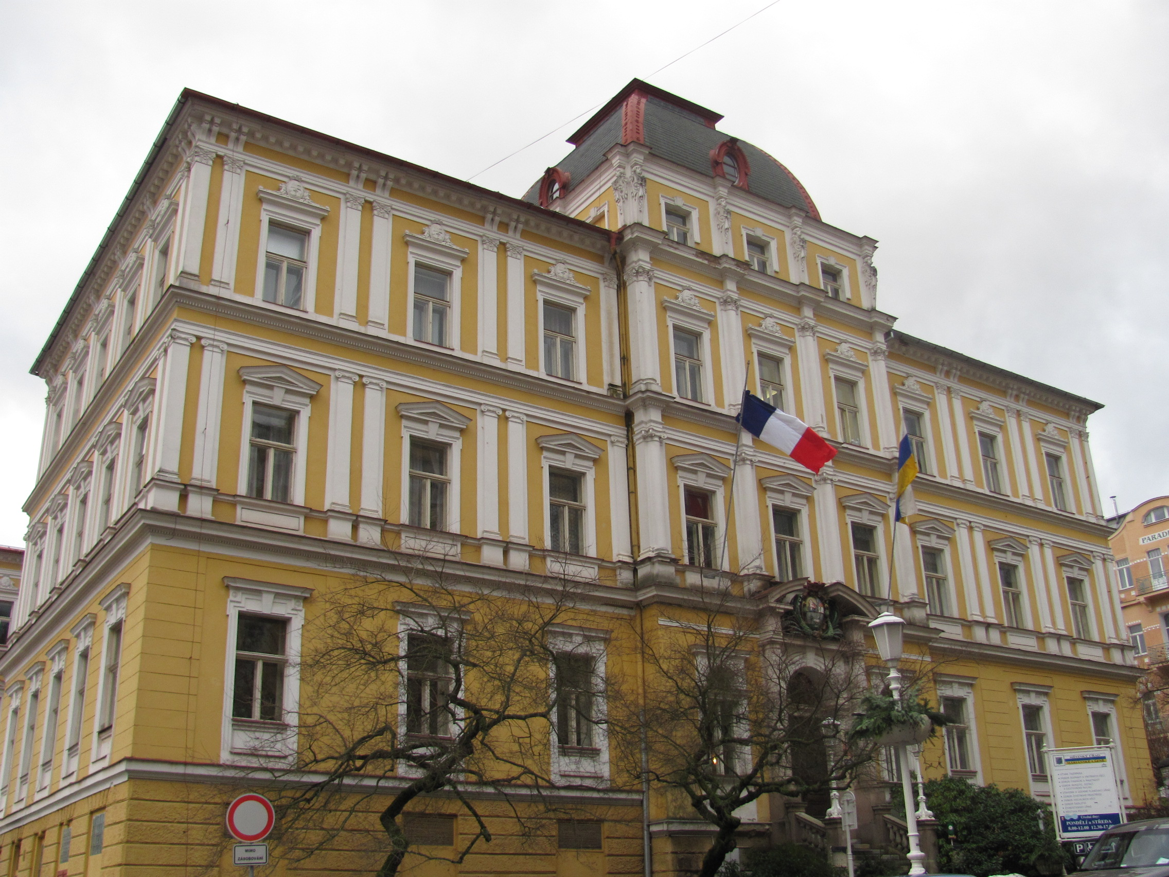 French flag at town hall of Mariánské Lázně (Czech Republic) after Charlie Hebdo shooting in January 2015.